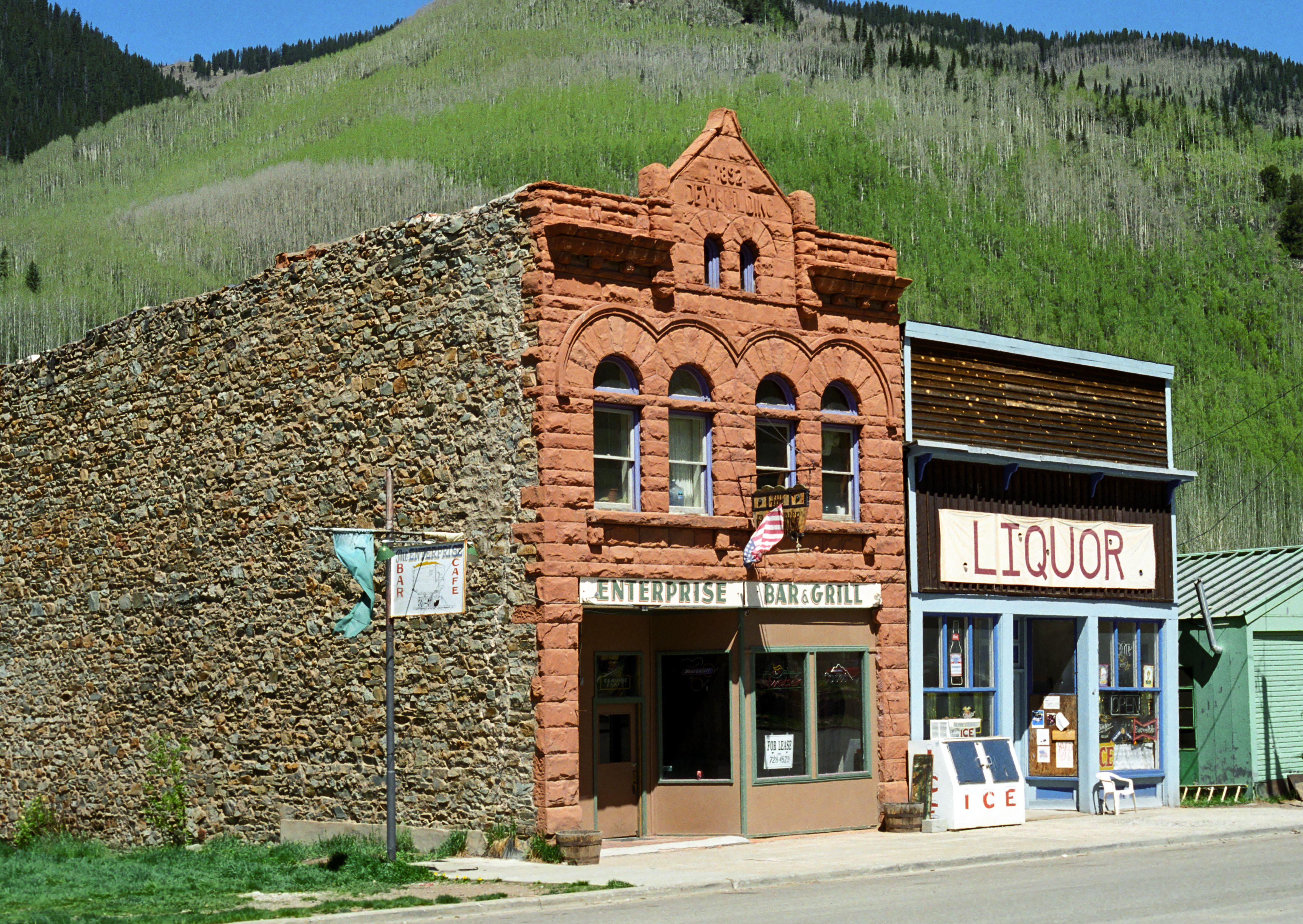 Front of the Dey Building, located at 3 N. Glasgow Avenue in Rico, Colorado, United States. Built in 1892, the building is listed on the National Register of Historic Places.